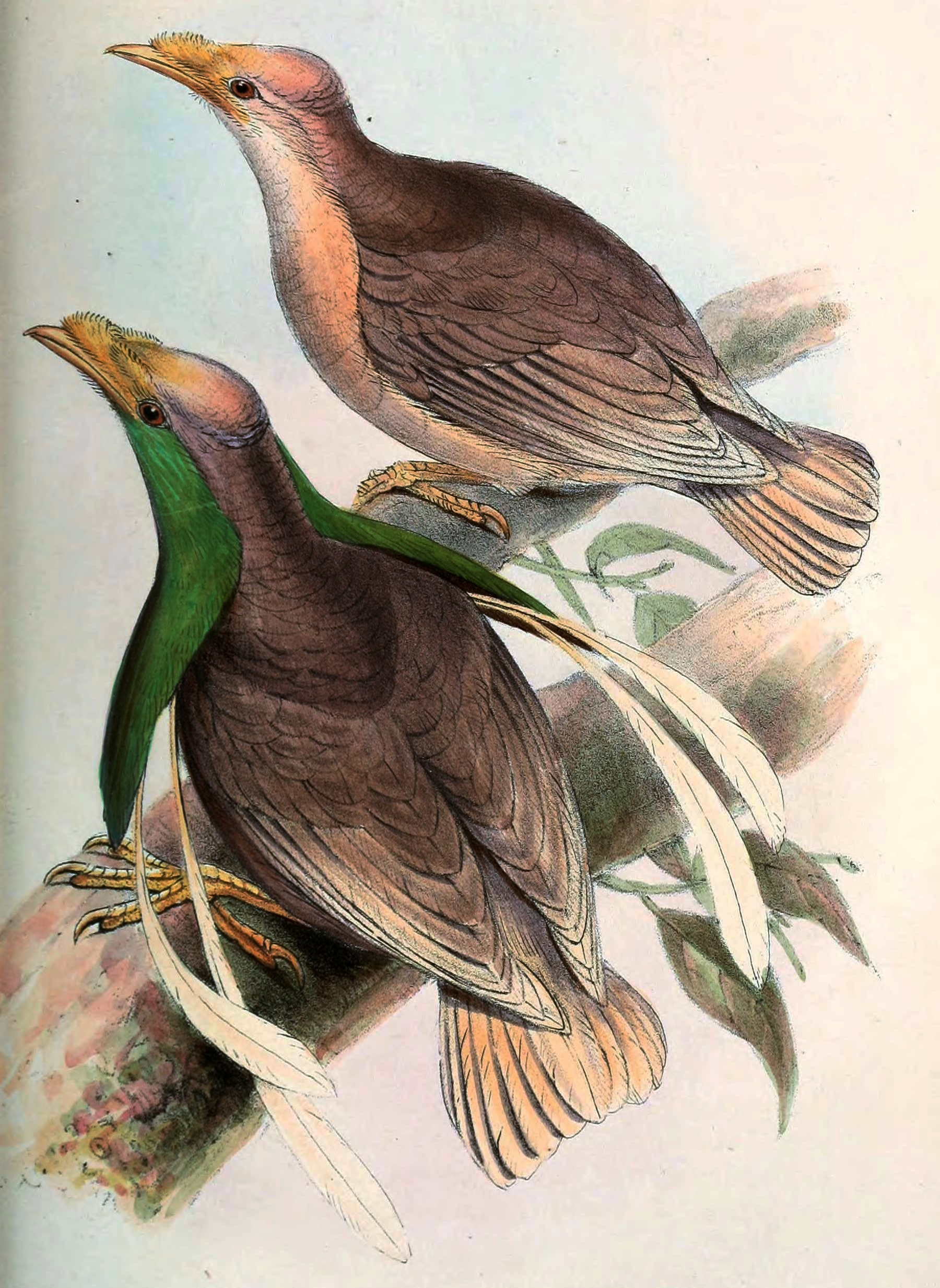 « Semioptera wallacii » = Semioptera wallacii (Standardwing)